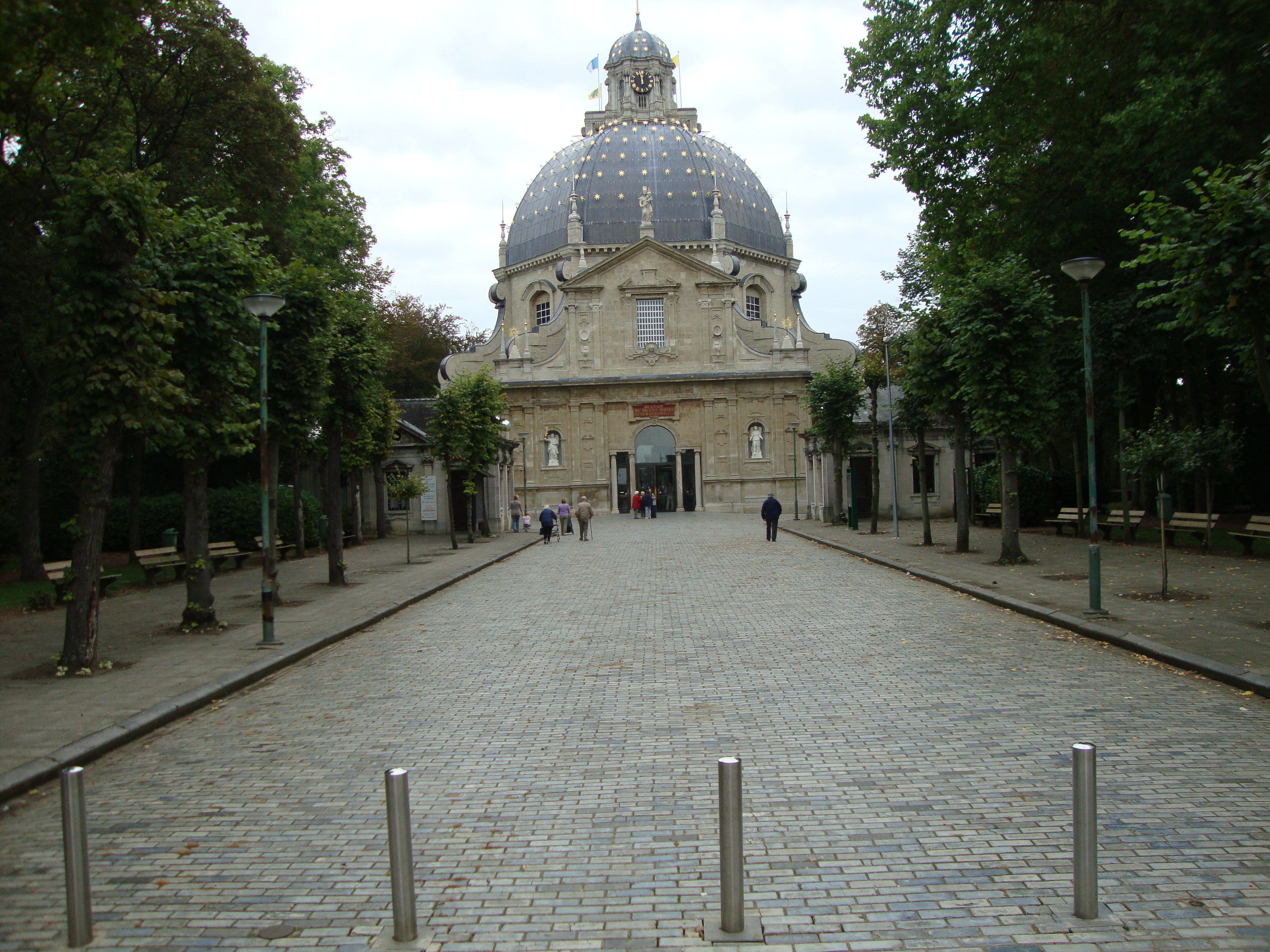 Our Lady Church, pilgrimage site in Scherpenheuvel